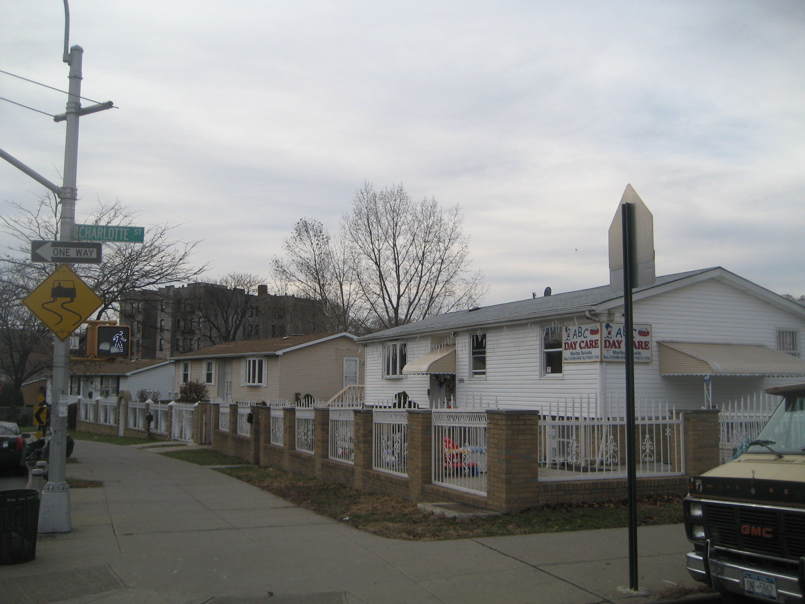 Photograph of Charlotte Street, Bronx, New York